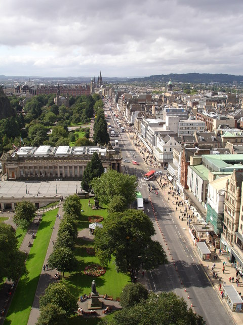 Princes St looking west View from Scott Monument